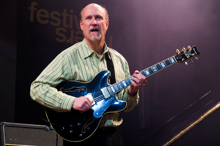 John Scofield at moers festival 2006 own photo, june 2, 2006- photo: nomo/michael hoefner